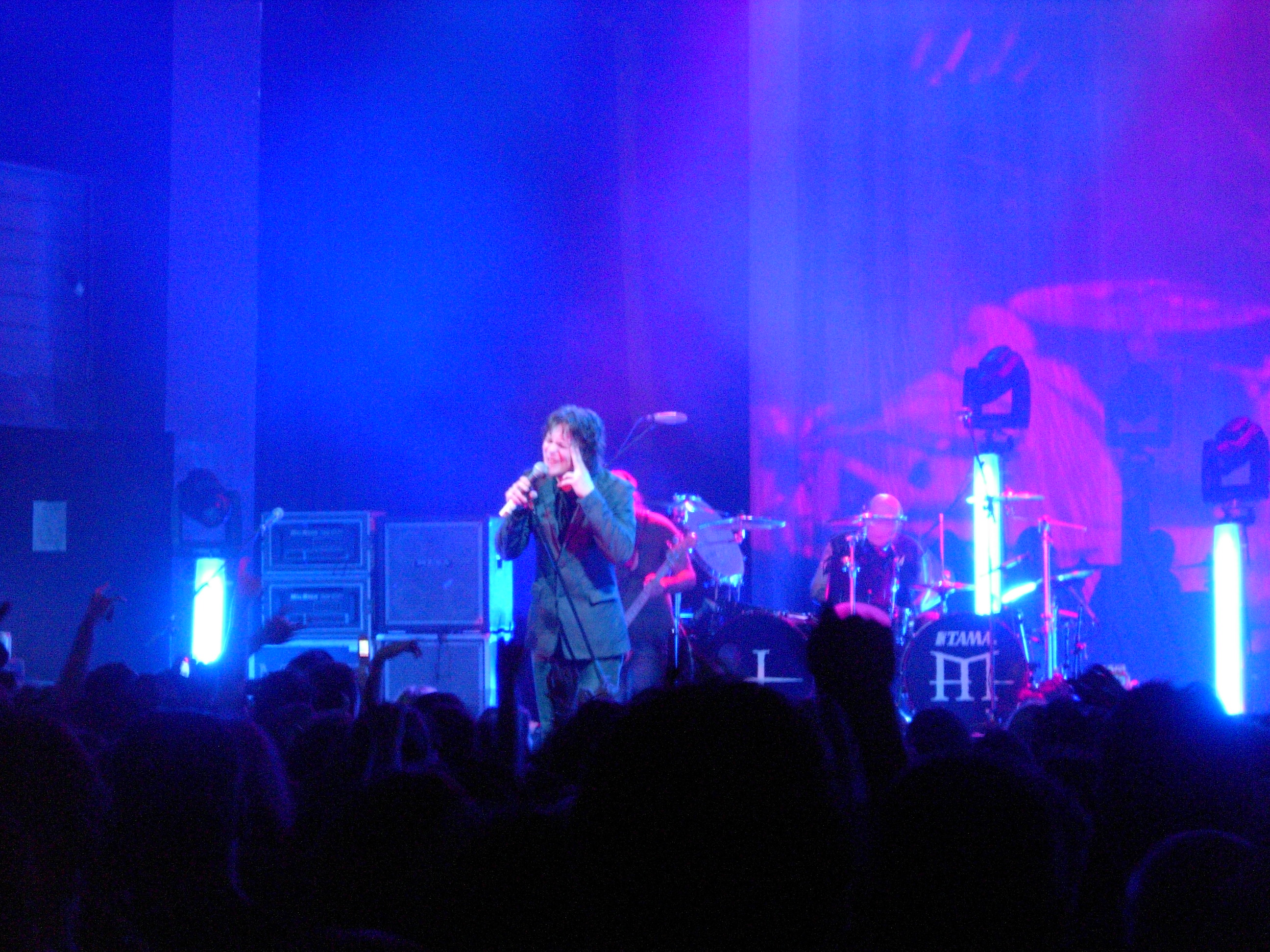 H.I.M. concert at milano (Milan).